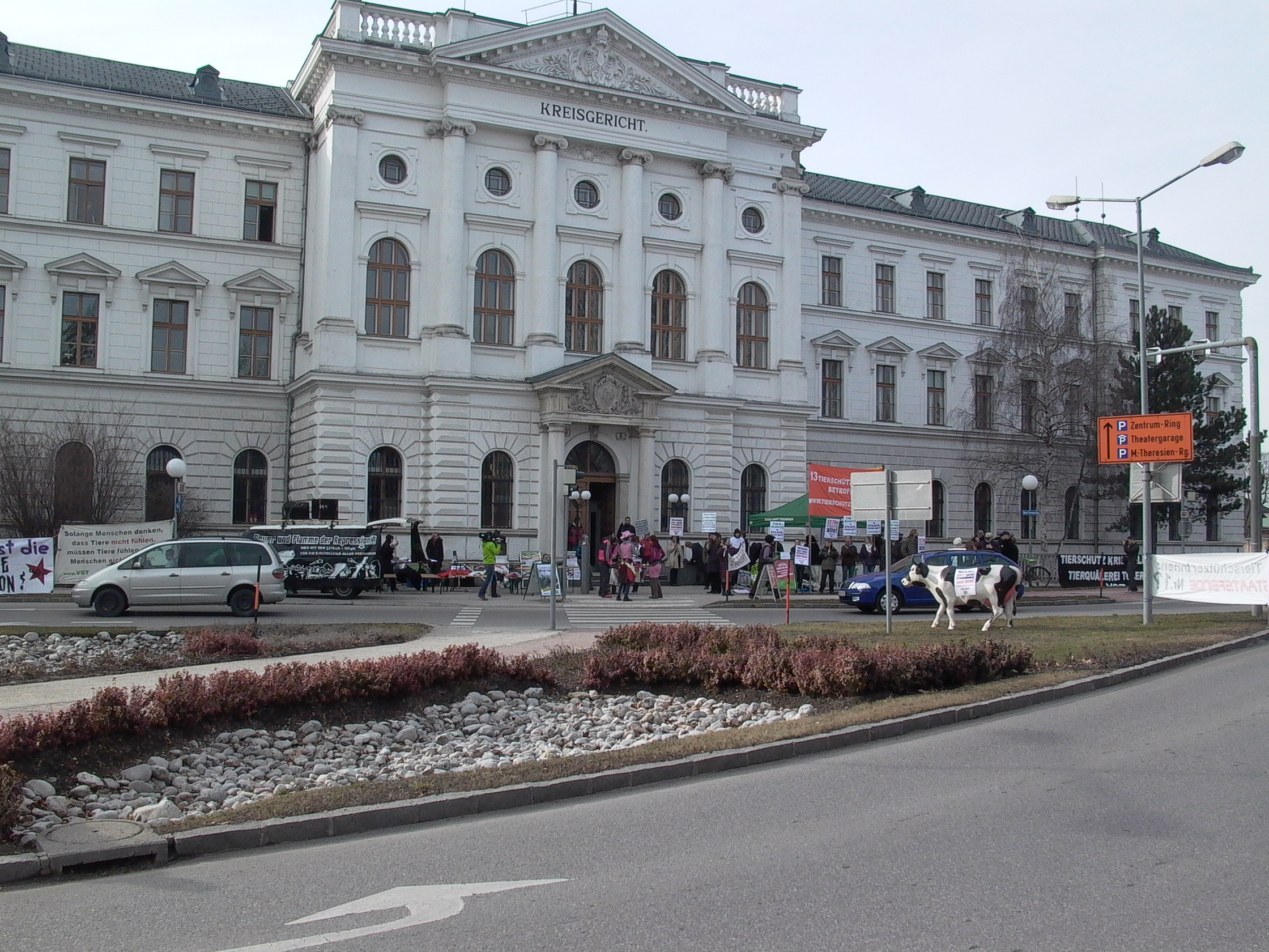 Demonstration at the county court in Wiener Neustadt (Austria) opposing the trial against 13 animal rights activists accused of being members of an international criminal organisation committing damage to property factory farms and stores selling animal products. Many critics of the trial argue, that sect. 278a of the Austrian criminal code is being misused in this case in a undemocratic, totalitarian way to repress critics of the civil society. They demand an ammendment to saveguard aginst furthe misuse of this law.